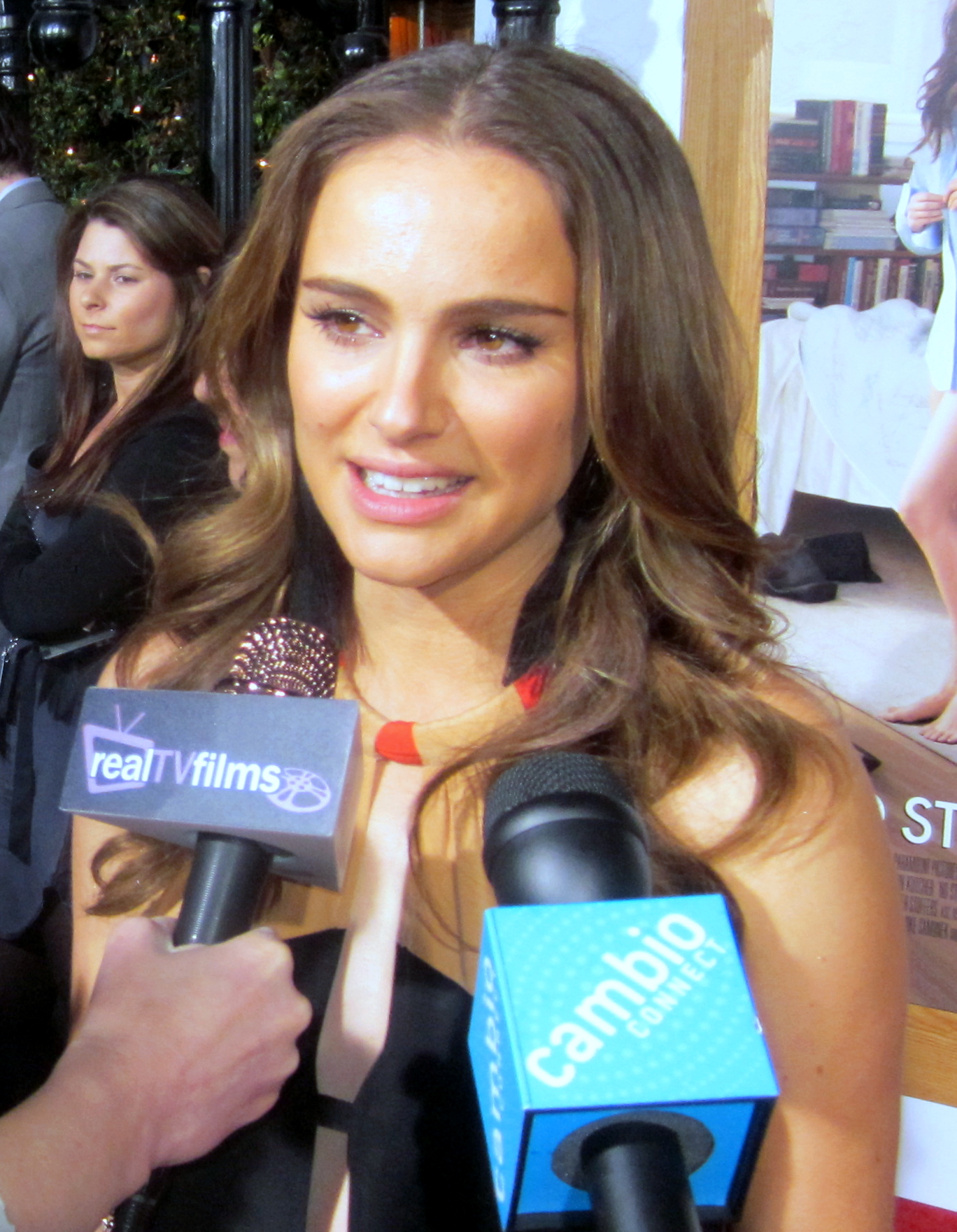 Natalie Portman at the Premiere of No Strings Attached.